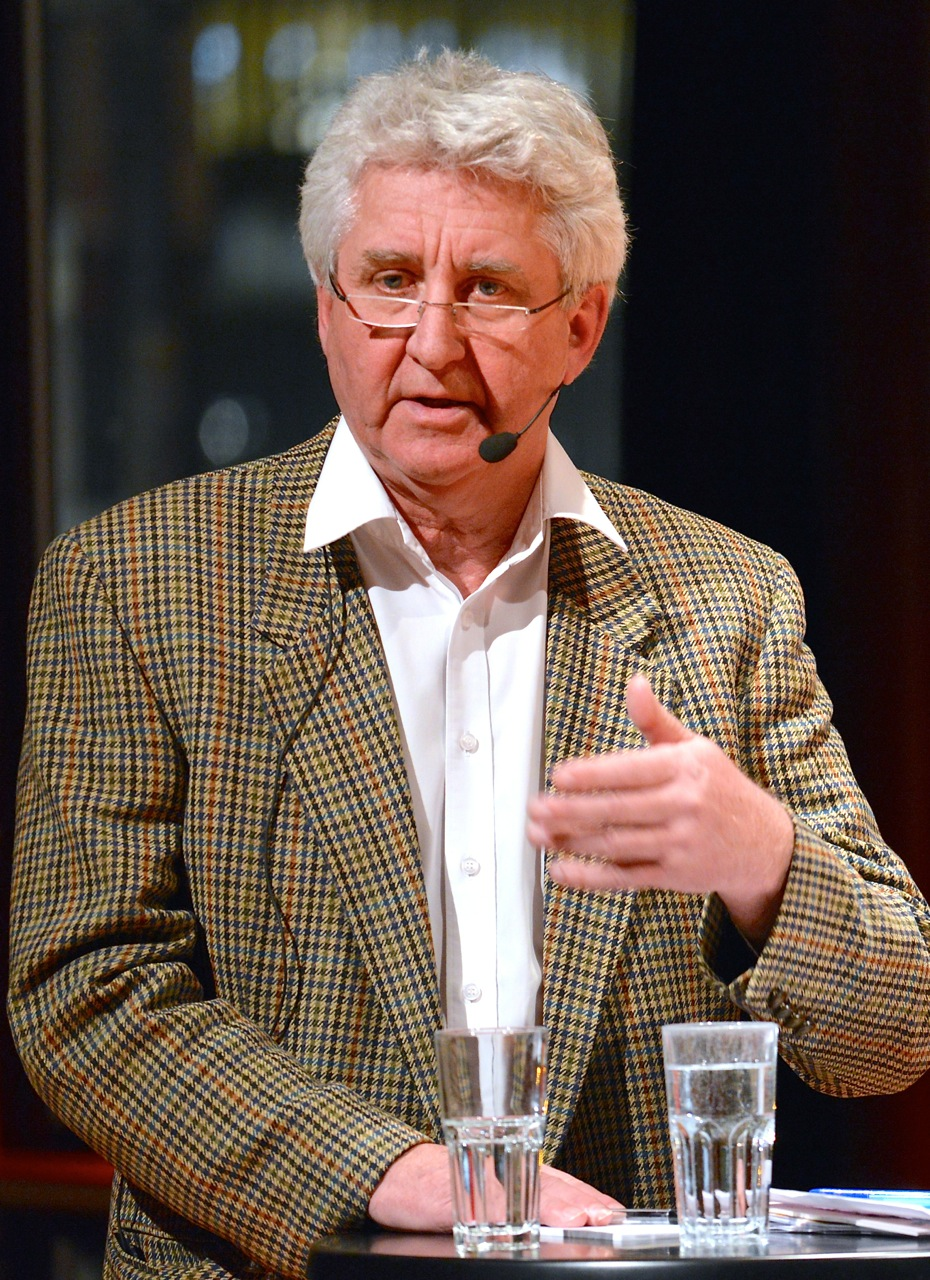 Stefan Lindeberg (SOK) at Kulturhuset in Stockholm on January 29, 2014. The debate covered politics and sports for the Olympics in Russia.